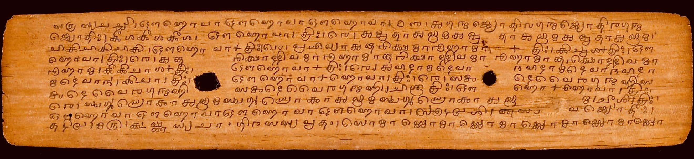 The Vedas are scriptures of Hinduism. They consist of four layers of texts: samhita, brahmana, aranyaka and upanishads (they also have Vedangas and appendices to these main layer of texts). The samhitas are dated to between 1500 and 1000 BCE. The Brahmanas and Aranyaka texts are probably from about 1100 to 700 BCE, while the Upanishads from about 900 to 200 BCE. Each Vedic layer consists of books. These oldest texts are in the archaic Sanskrit language. The Vedic texts between 900 to 500 BCE are close to the classical Sanskrit, which was formalized by Panini. The Aranyaka hymns that cover a mix of topics: benedictions, mythologies, questions and riddles, drama and poems, philosophy and mystical speculations. The corpus of Vedic texts, as well all post-Vedic texts, are generally accepted to have been orally transmitted from generation to generation for over a millennium, till about the start of the common era. In Sanskrit, they were written in many Indic scripts (such as South Indian Grantha script above). The scripture was written on palm leaf manuscripts, copied for preservation in Hindu temples and monasteries. Later paper and cloth versions were produced, where the page size was similar to the heritage palm leaf-like long pages. The above image is from Jaiminiya Aranyaka Gana of the Samaveda. Language: Sanskrit Script: Grantha The person who copied this manuscript wrote his name in the Malayalam script as Kecavan (Kerala), while the main text script is Grantha. The photo above is of a 2D artwork of a text that is over 2,000 years old, from a manuscript that was produced in 1863 CE. Therefore Wikimedia Commons PD-Art licensing guidelines apply. Any rights I have as a photographer is herewith donated to wikimedia commons under CC 4.0 license.